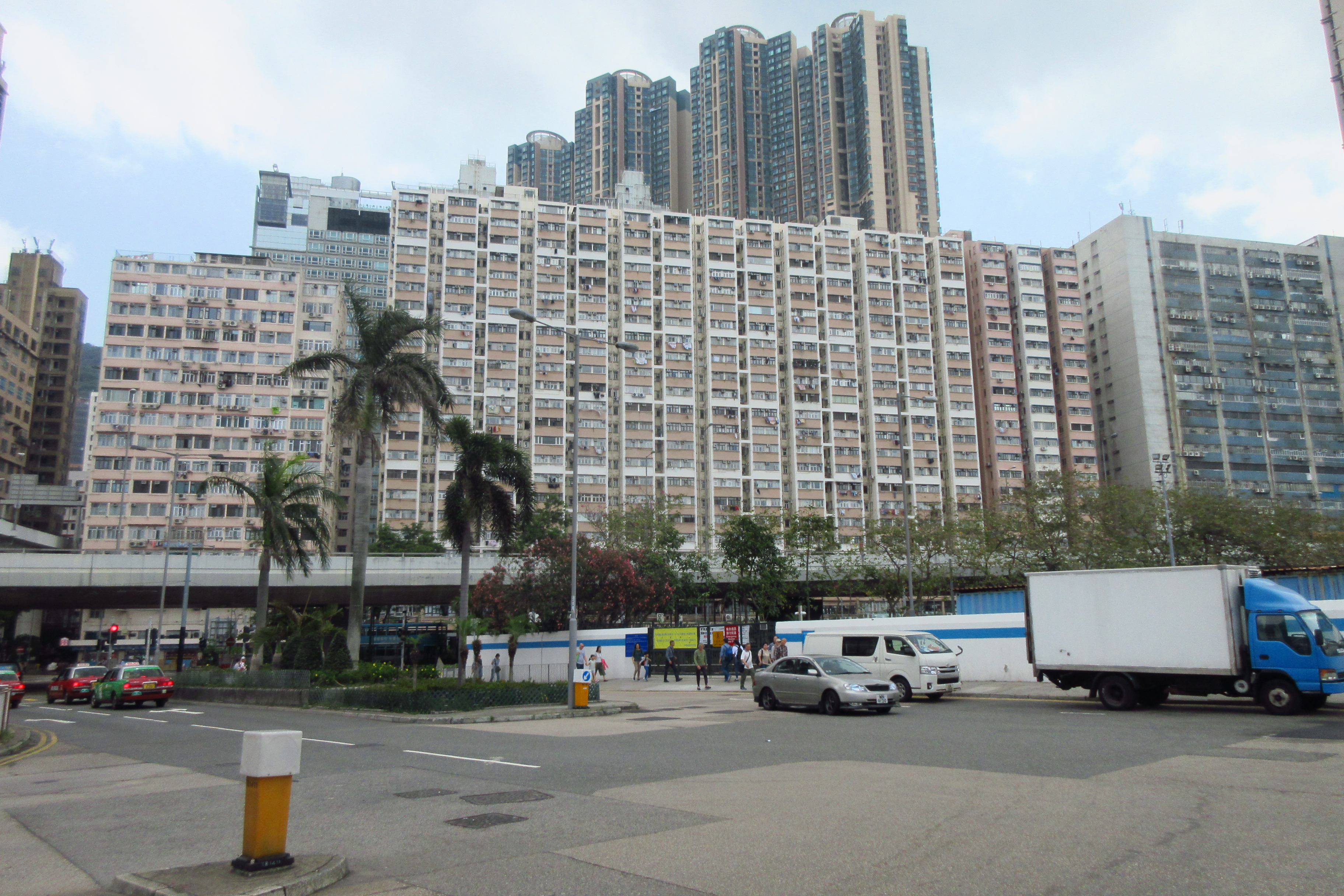 HK Shek Tong Tsui 中西區 Western District 豐物道 Fung Mat Road in April 2018